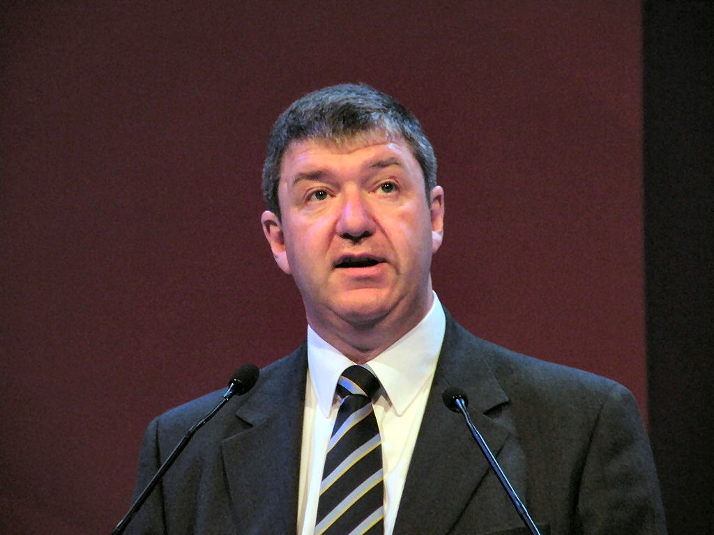 Alistair Carmichael MP addressing a Liberal Democrat conference in the Bournemouth International Centre